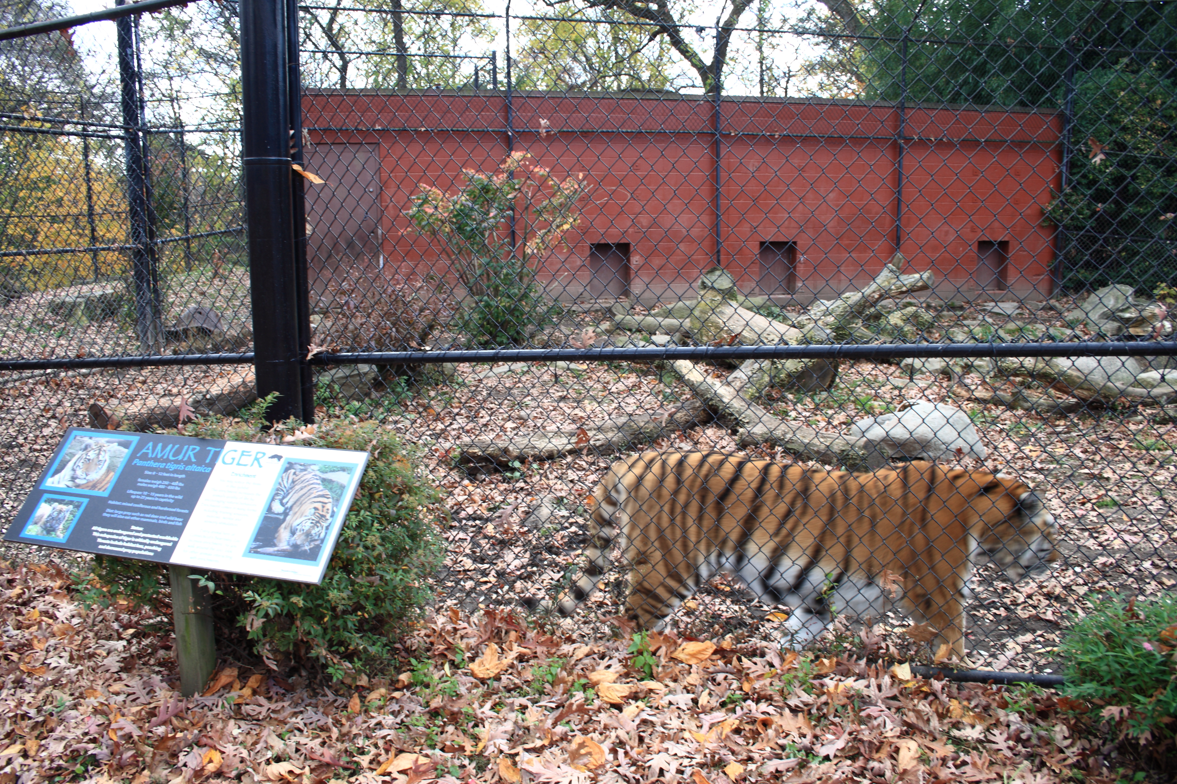 The Amur Tiger (Panthera tigris altaica) enclosure at Beardsley Zoo